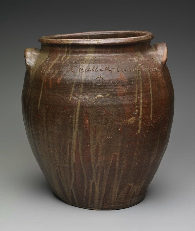 Alkaline glaze stoneware with text